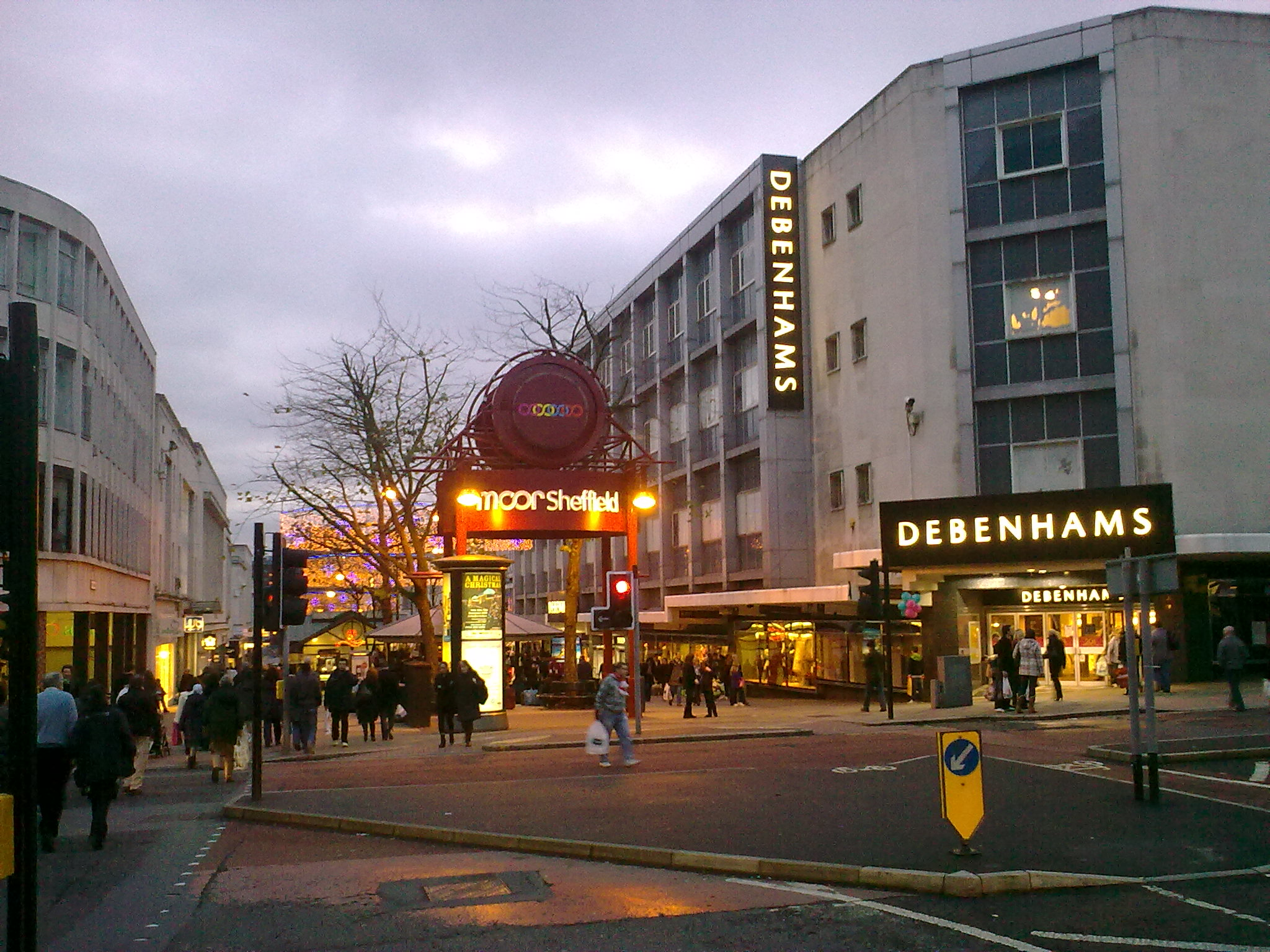 Moorhead, Sheffield, UK. This is one of the city's major shopping areas and the image shows its northern end.